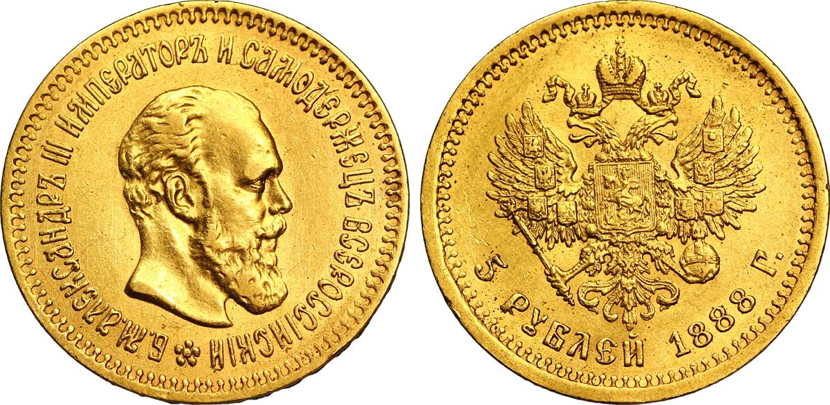 5 Roubles à l'effigie du Tsar d'Alexandre III, 1888